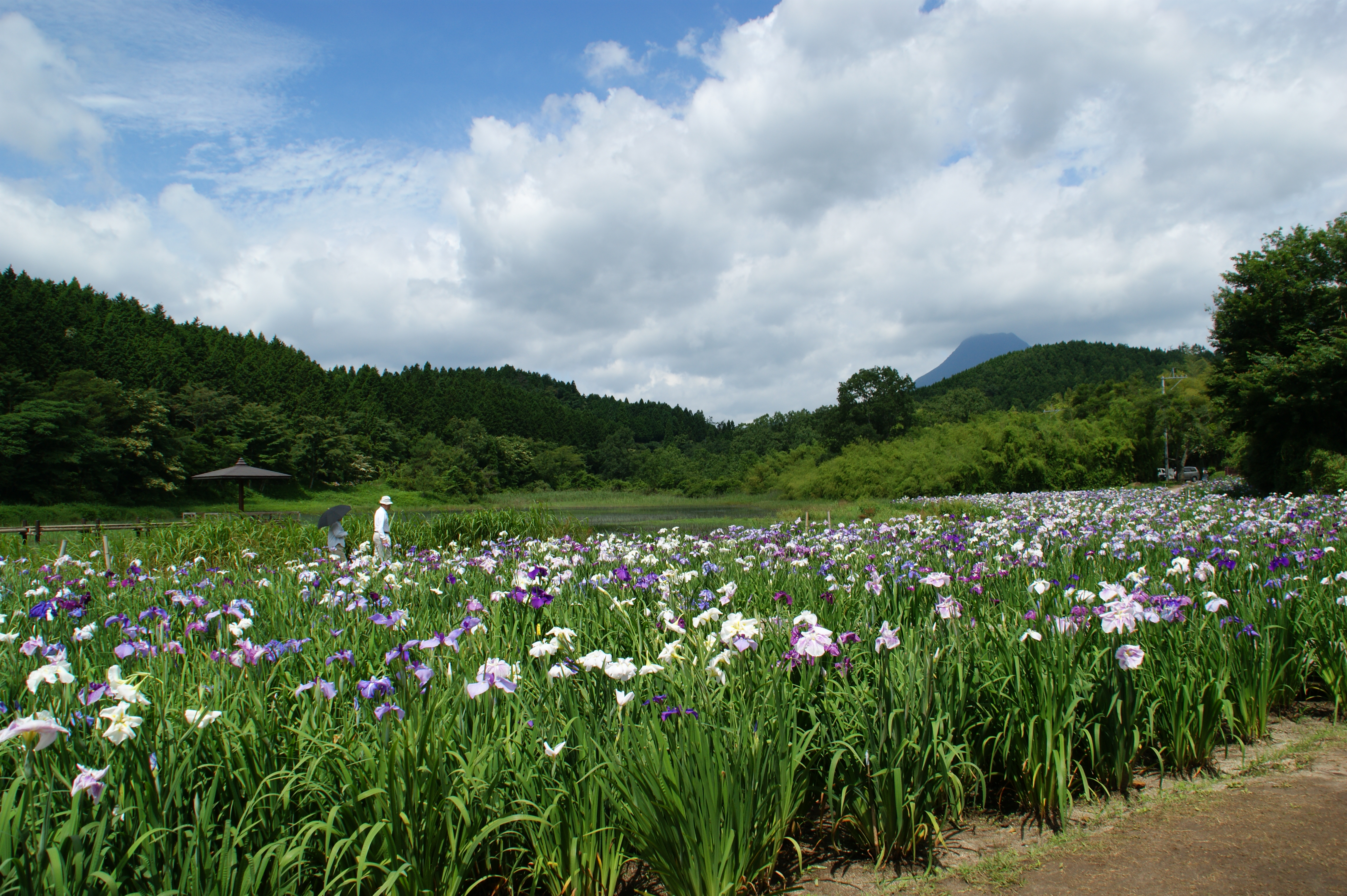 Lake Kagurame.(Beppu City, Oita Prefecture, Japan)